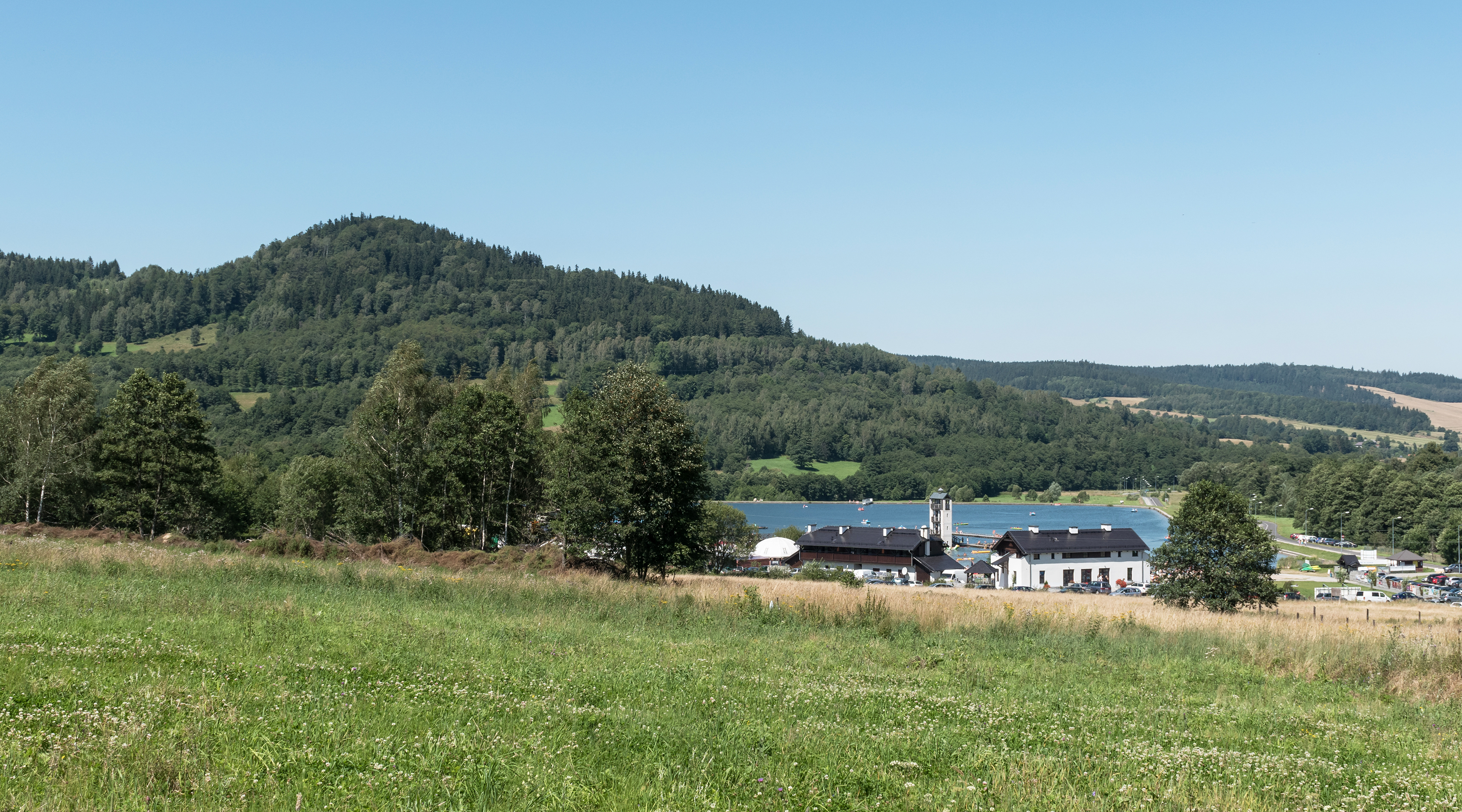 Reservoir in Stara Morawa